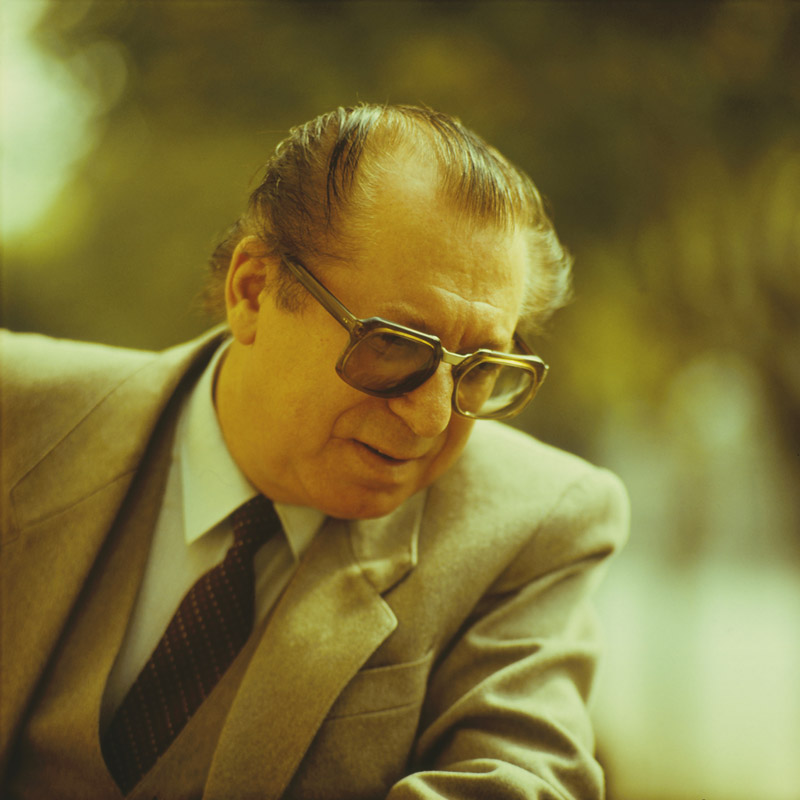 Vladimir Curbet - the art director of the State academic ensemble of national dance of Moldova "Joc".